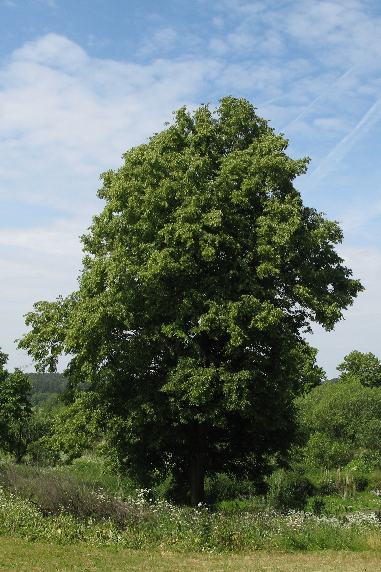 Tilia cordata, Poland